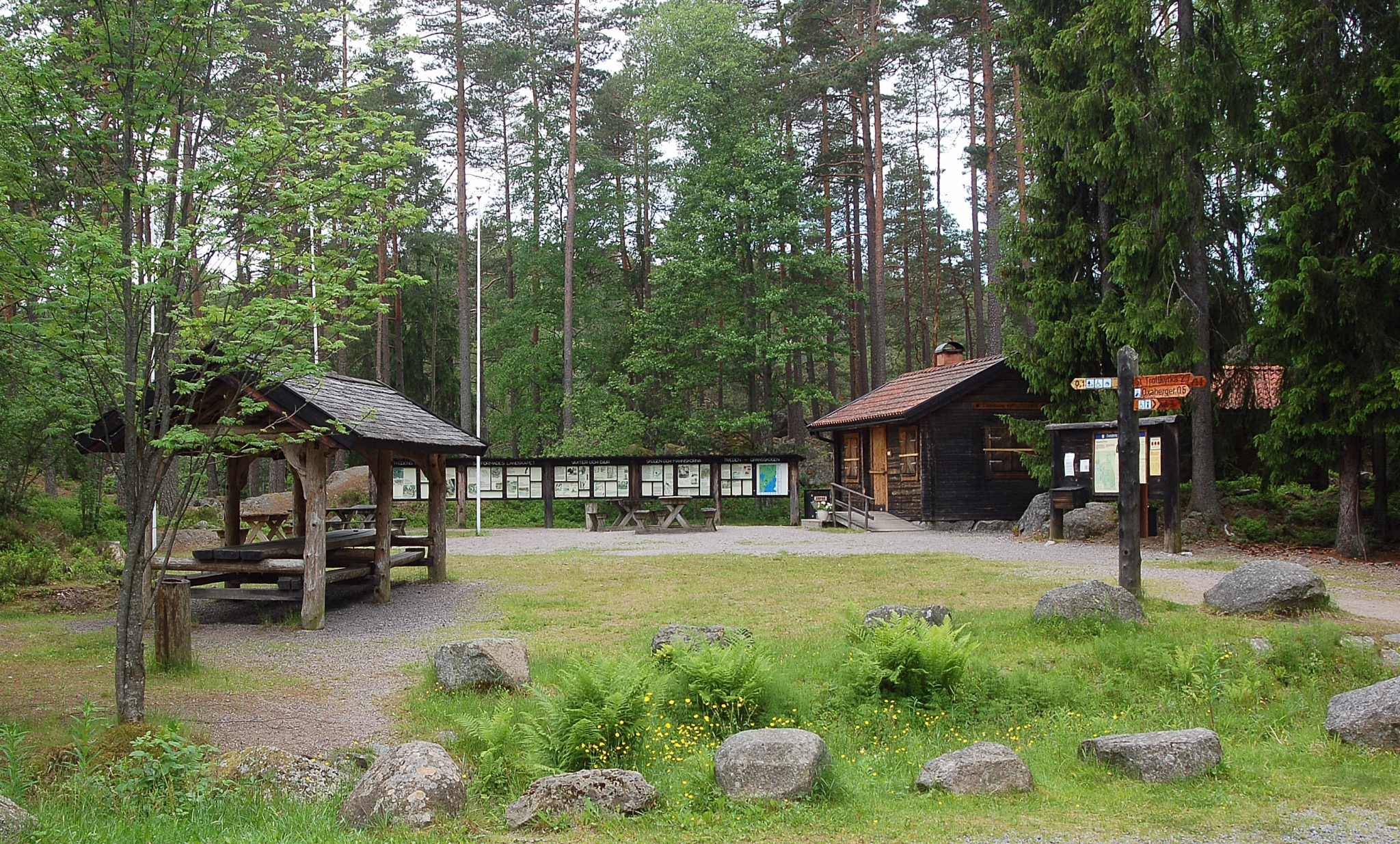 Informationscentret i Tived nationalpark, Laxå Sweden.